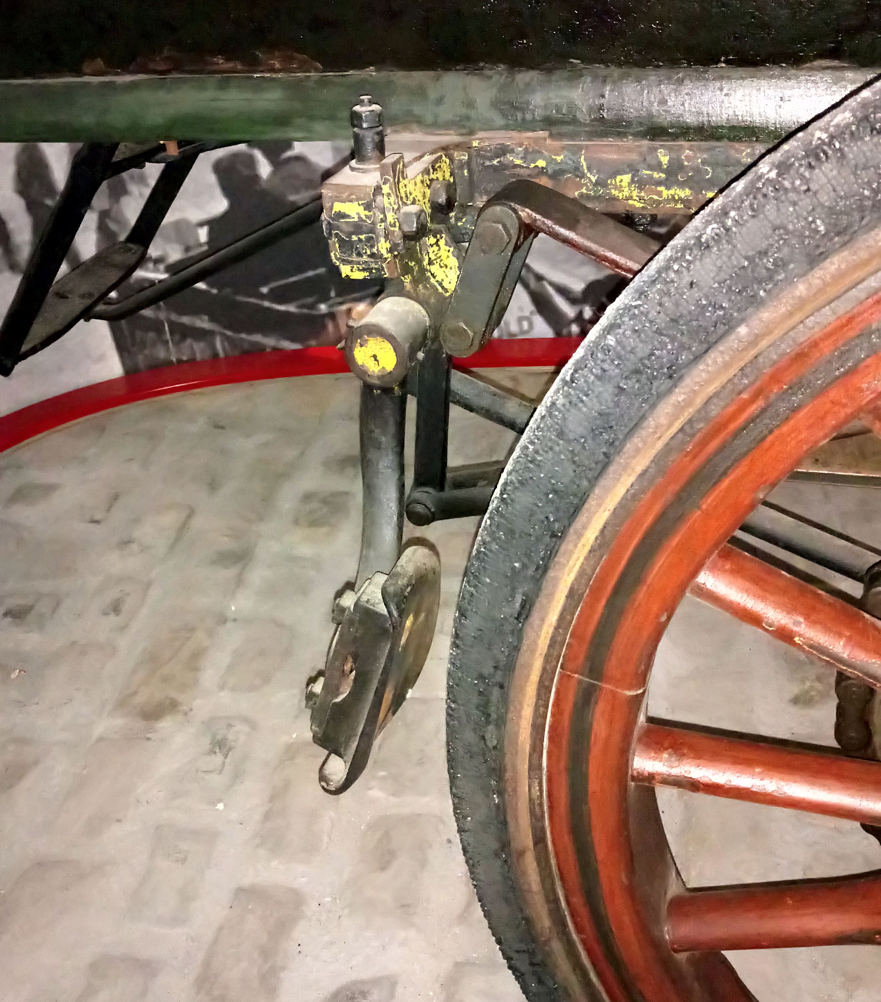 Rear wheel brakes of a 1897 Daimler Wagonette. Photographed at Haynes International Motor Museum in Sparkford, Somerset, UK.